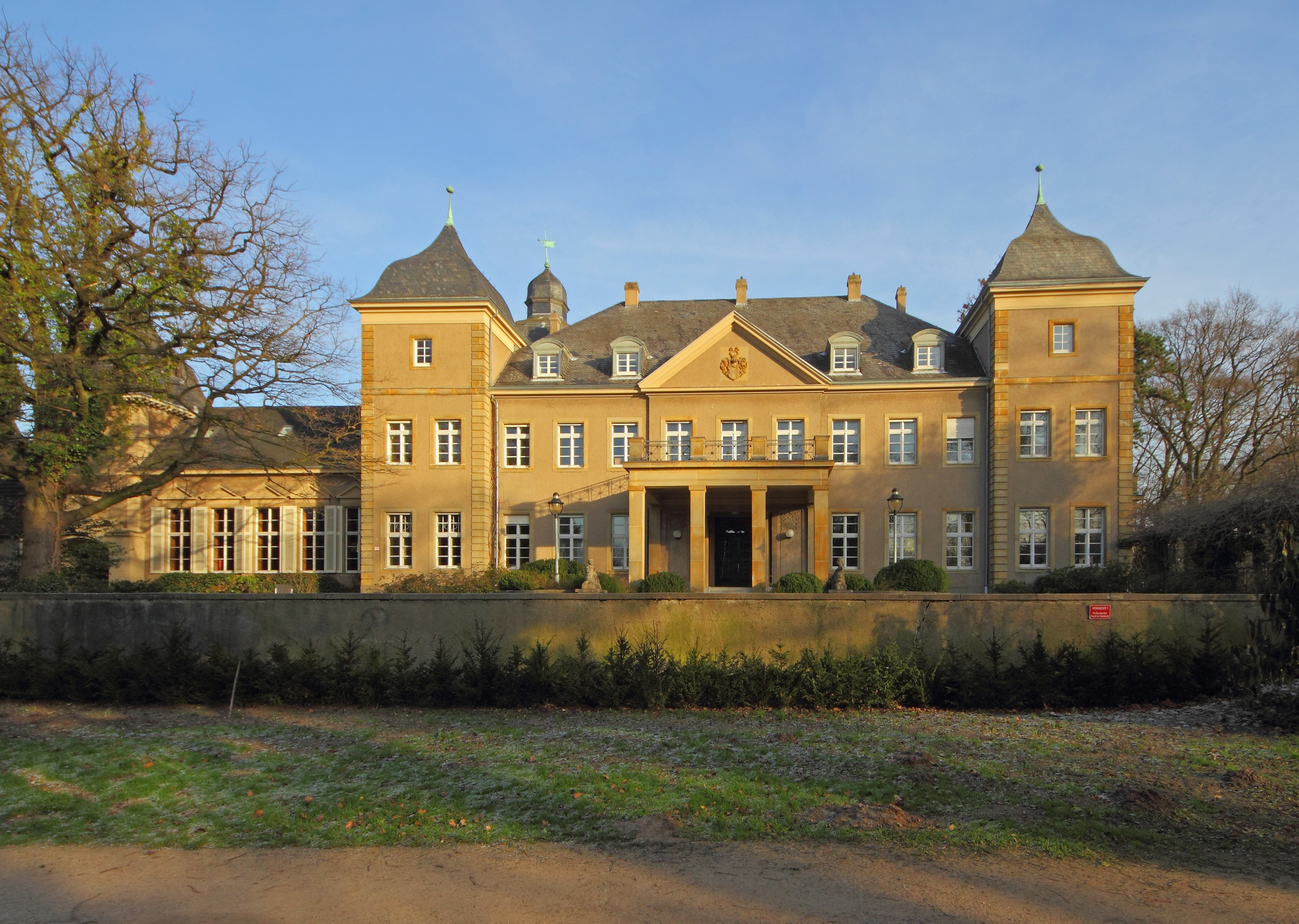 Garath Castle in Düsseldorf